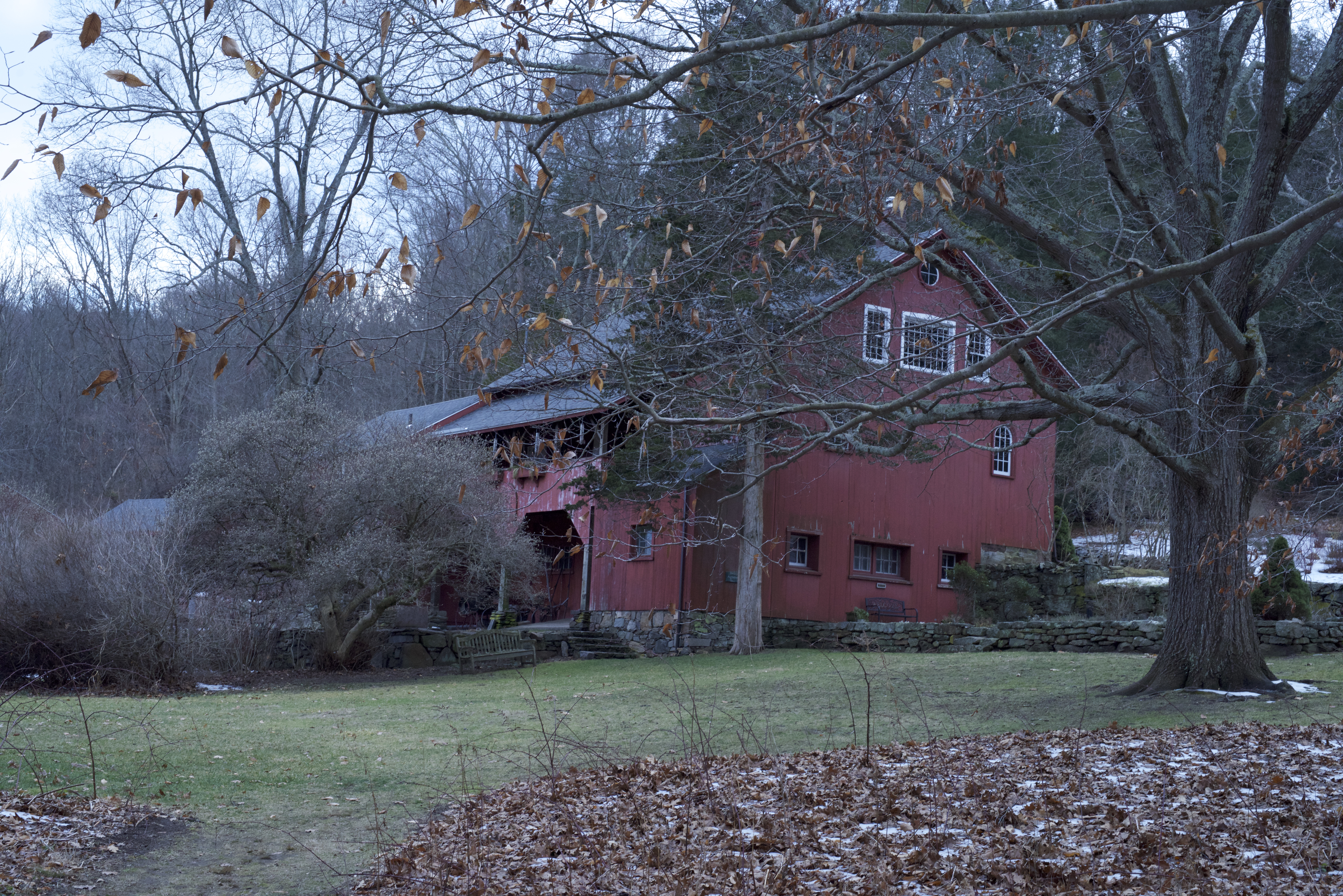 Southbury Audubon Society